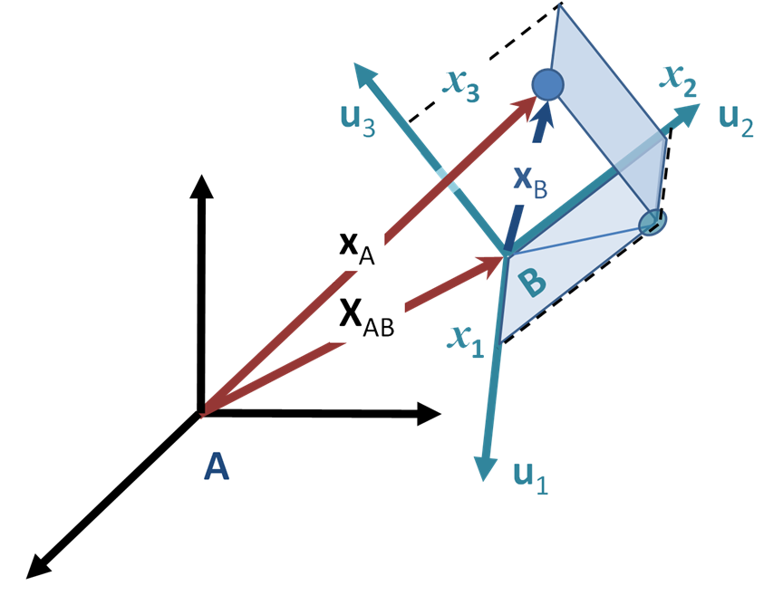 Two coordinate frames